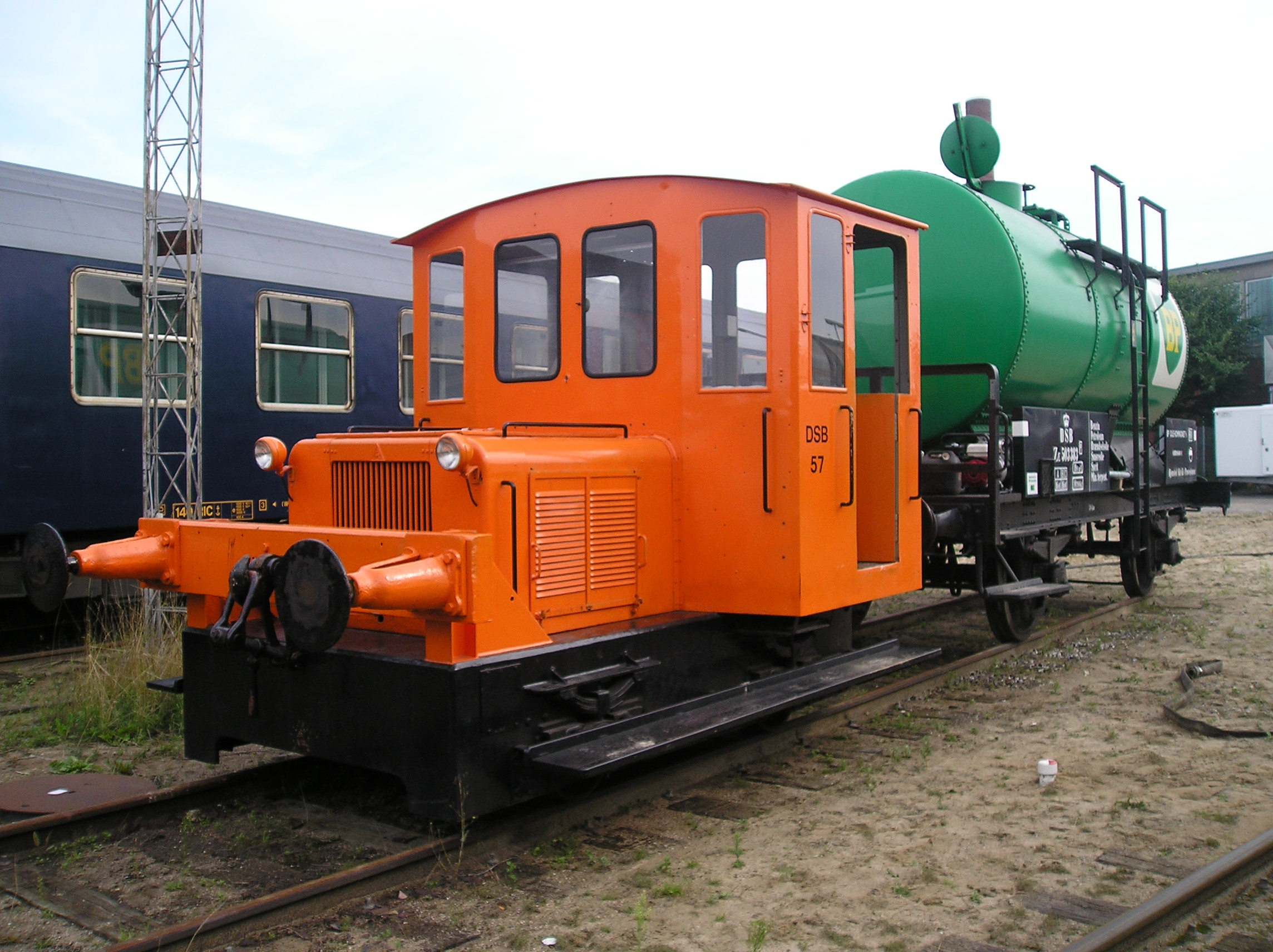 Danish diesel locomotive DSB Traktor 57 at Danmarks Jernbanemuseum in Odense.